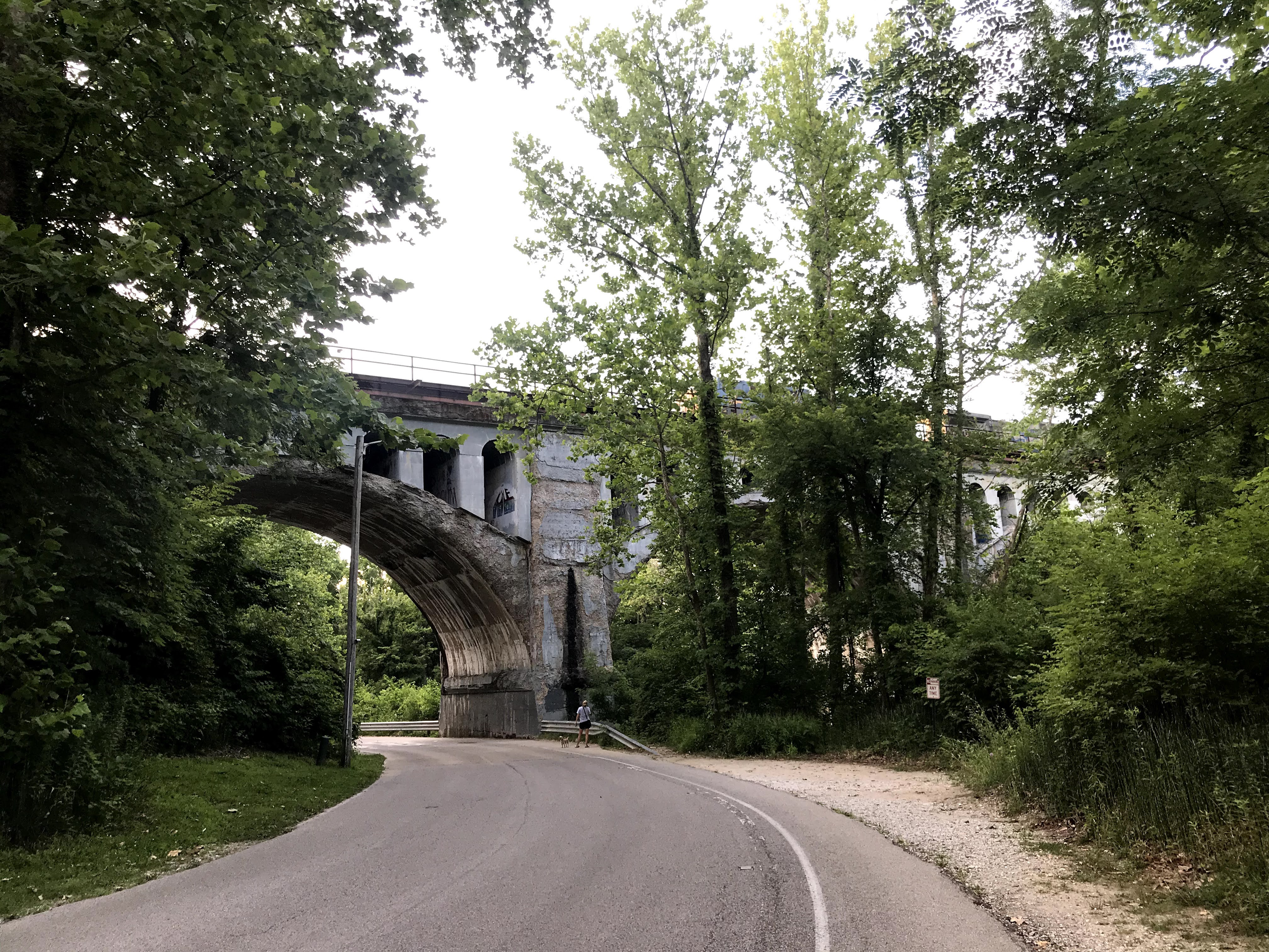 Avon Haunted Bridge in Washington Township Park